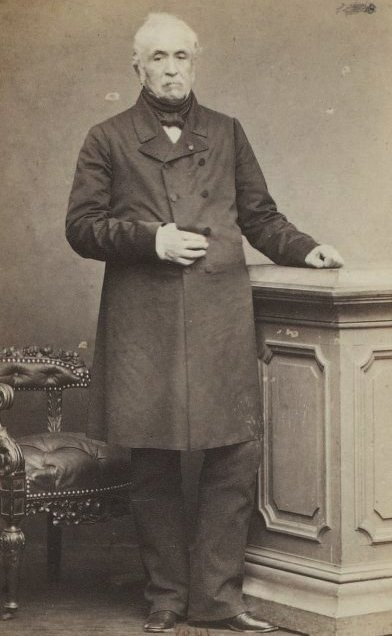 Portrait of the Occitan politician Xavièr Reguís